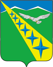 Coat of arms of Luch (Labinsk Raion, Krasnodar Krai, Russia)